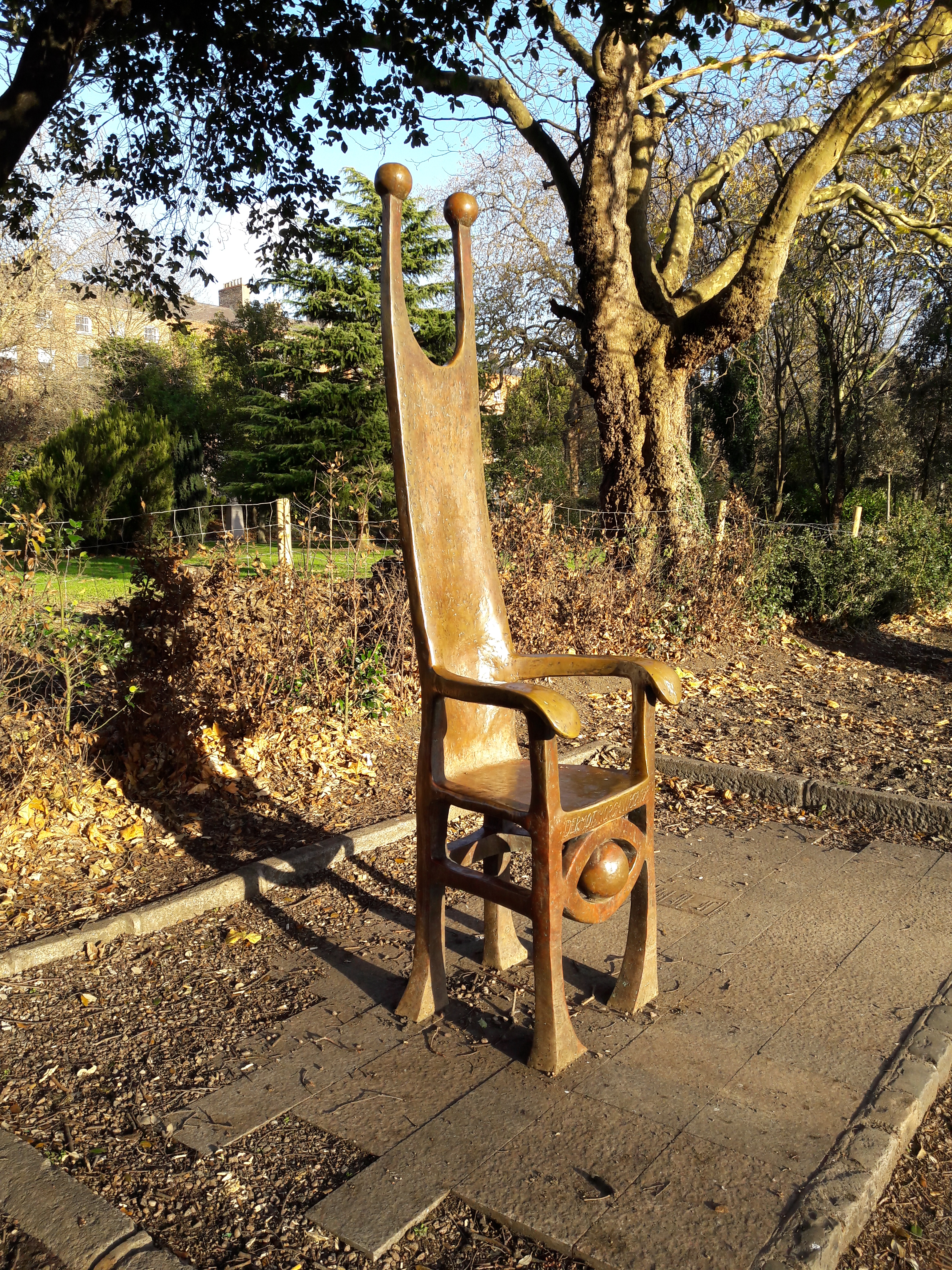 Memorial to Dermot Morgan